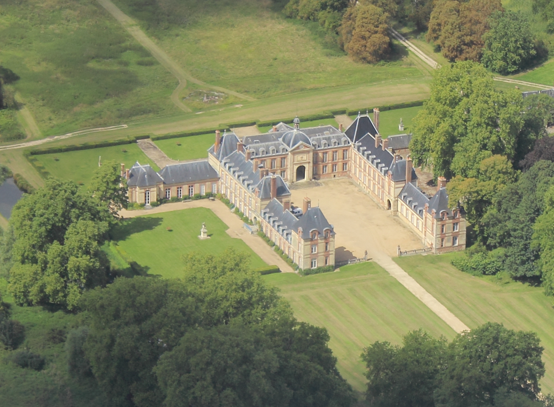 Aerial view of the Château of Pontchartrain